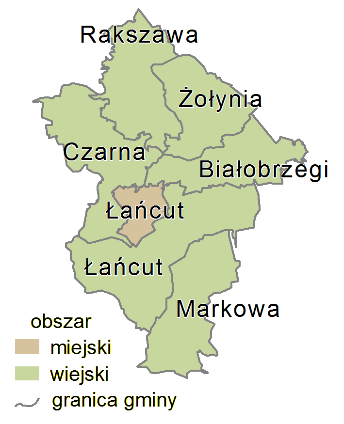 Subcarpathian Voivodeship - łańcucki county gminas